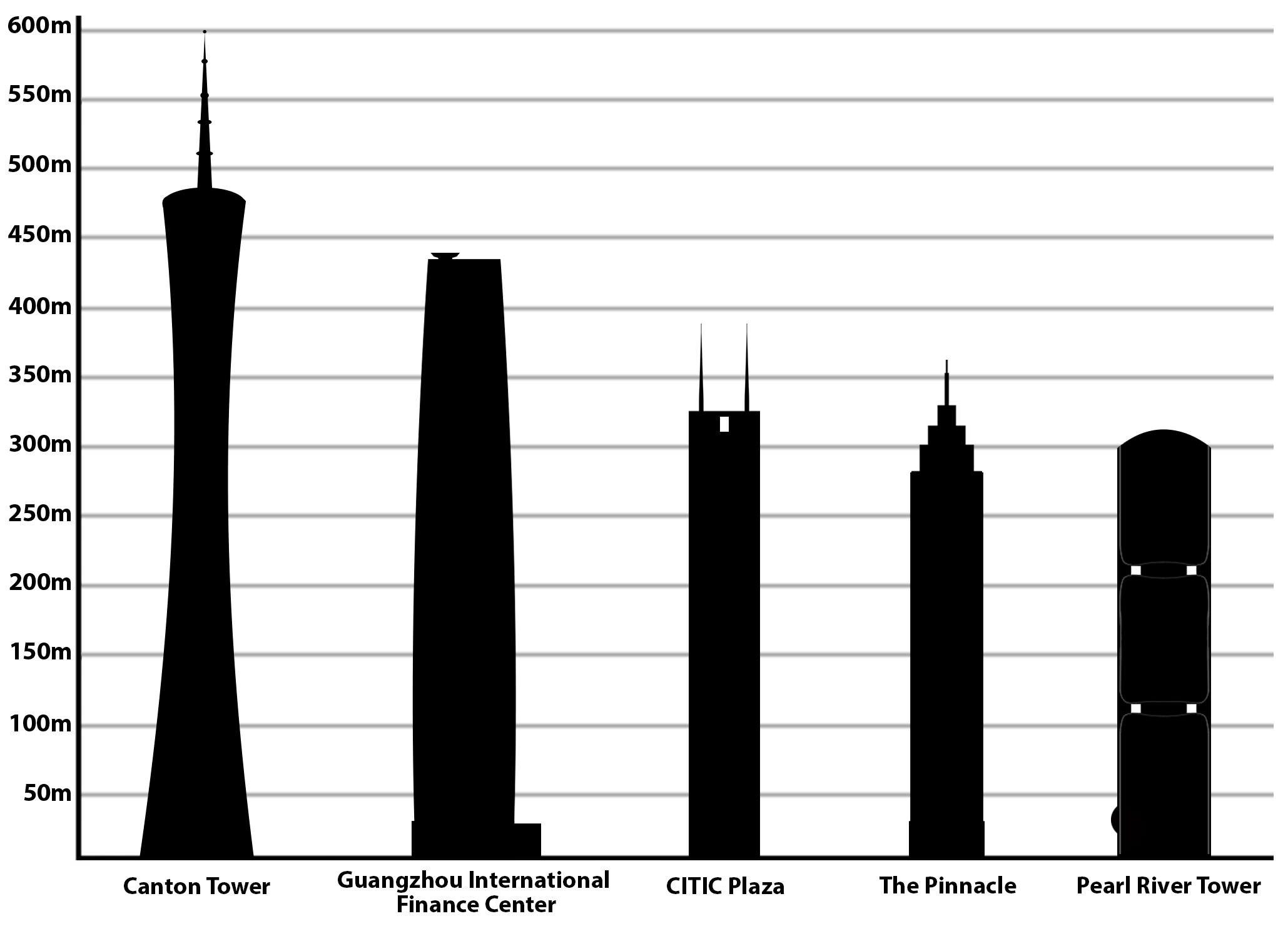 Tallest structures in Guangzhou; Used data from .